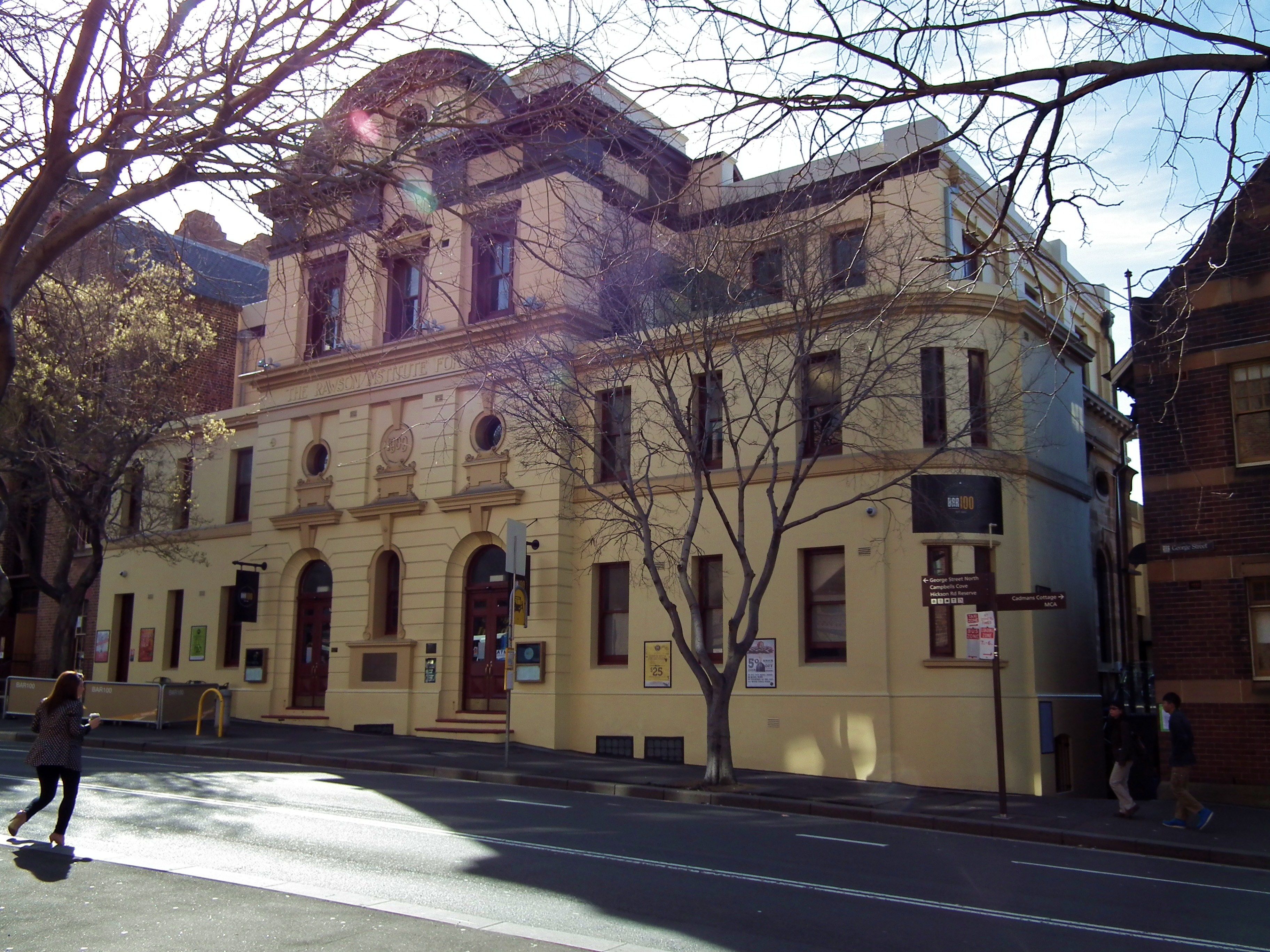 Rawson Institute For Seamen - The Rocks, Sydney, New South Wales. Formerly The Mariner's Church. Built 1856-59, and altered in 1909. Located at 98-100 George Street, The Rocks.